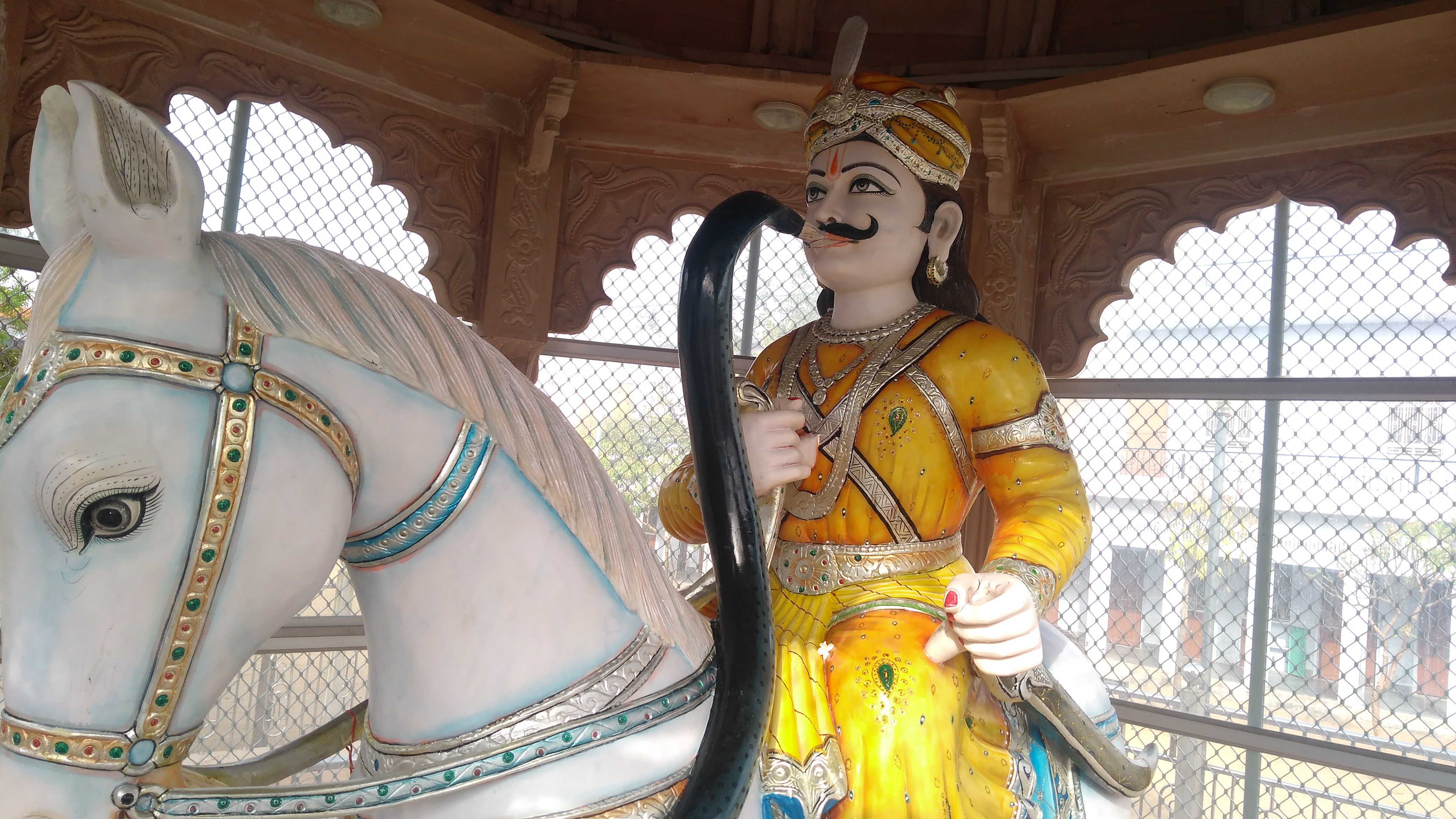 Veer Teja at Jat Samaj Dharamshala Diggi